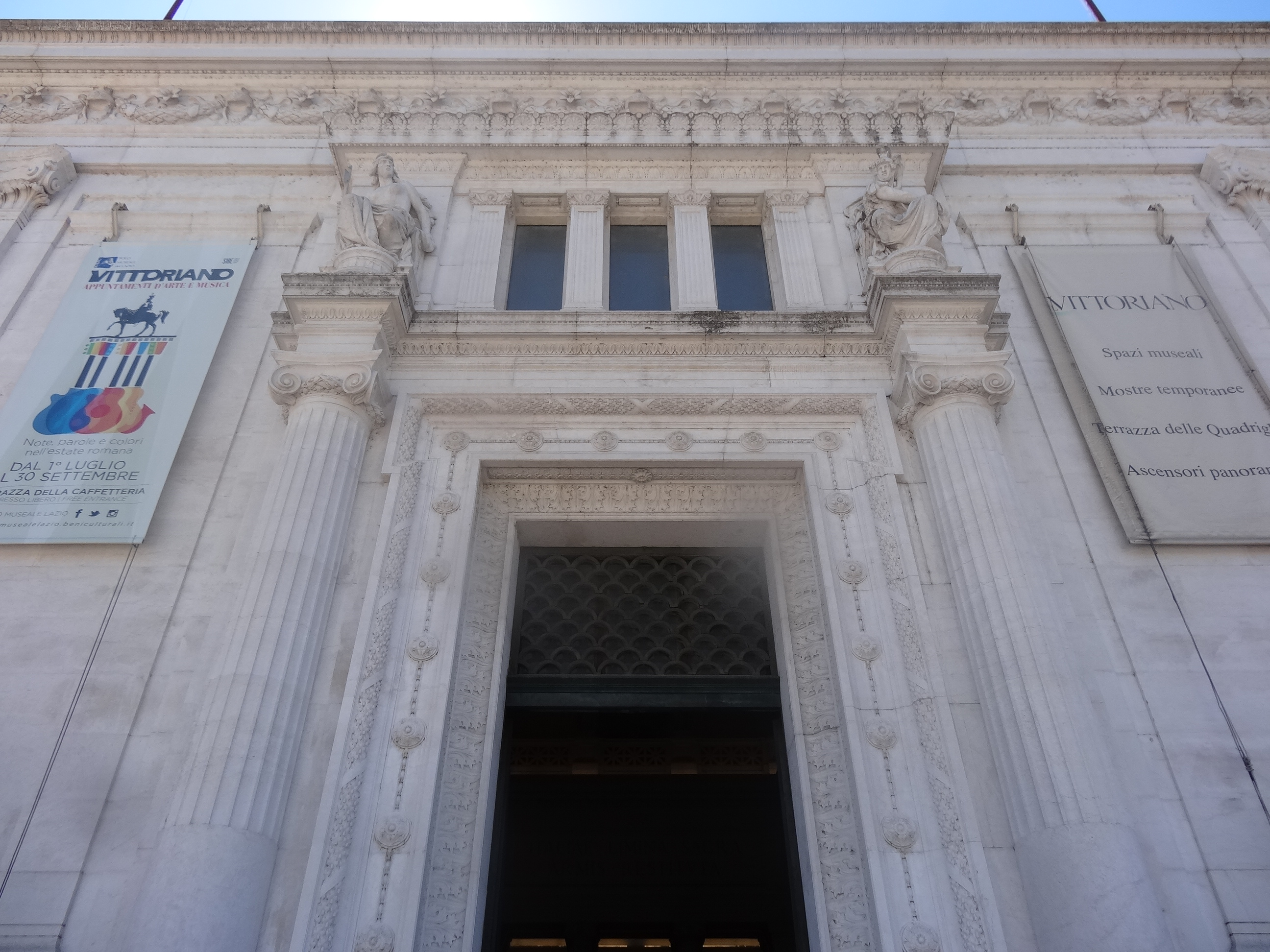 Vittoriano (Rome, 2016)